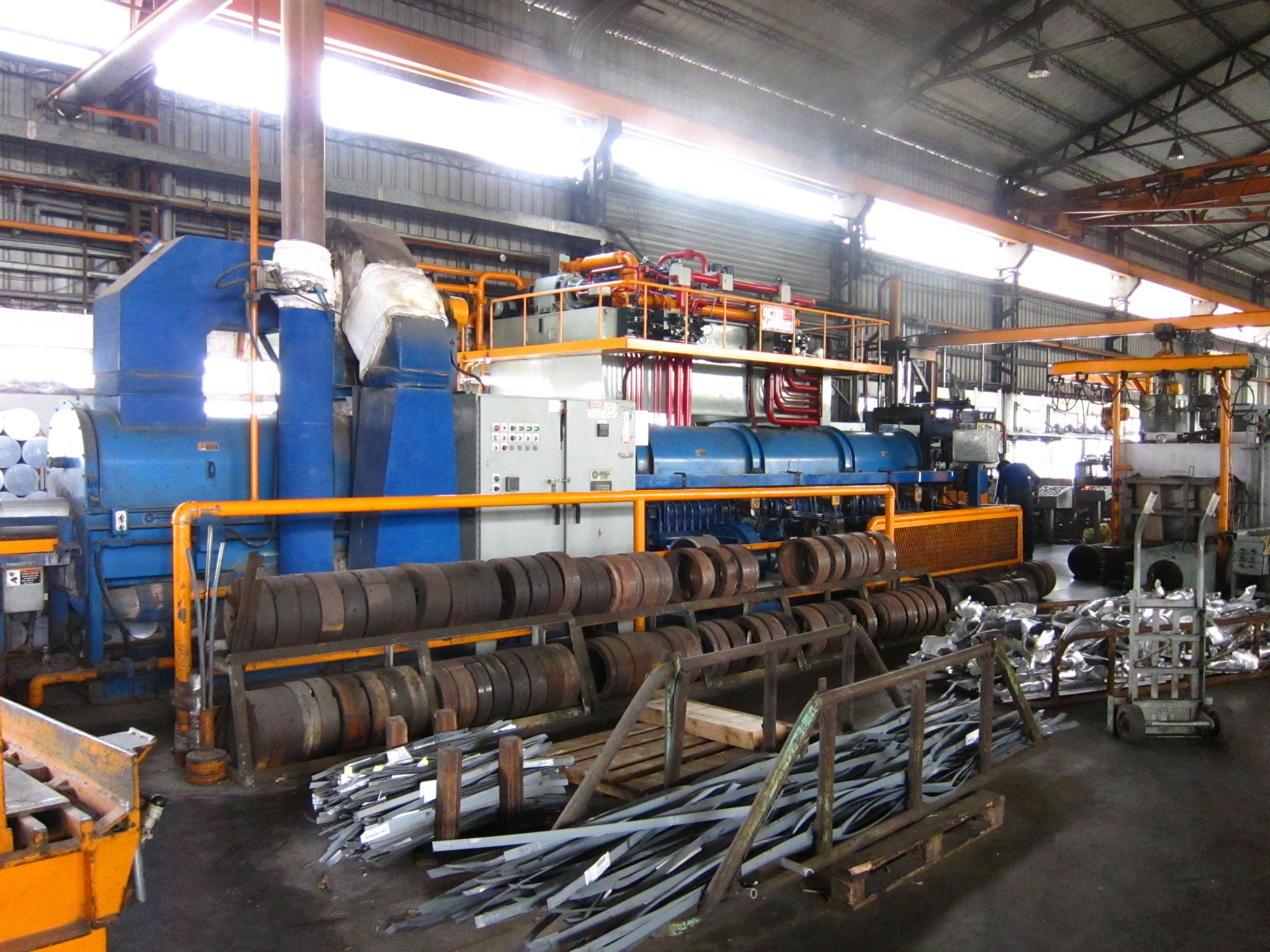 a hydraulic Aluminum extruding machine with loose dies visible in front